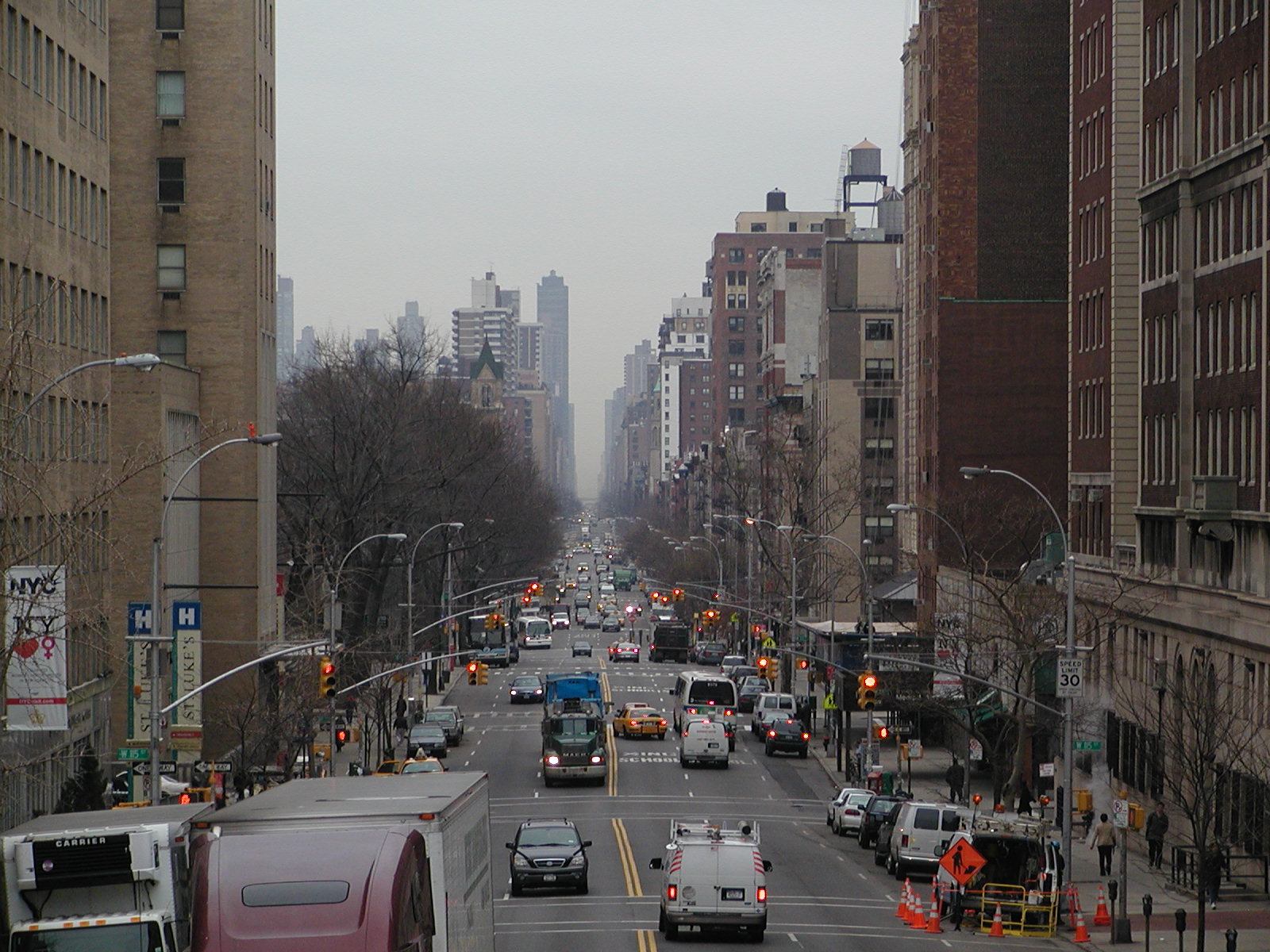 View of Amsterdam Avenue looking south from the Columbia University overpass. (The elevated courtyard spans across Amsterdam Avenue between West 116th and 117th Streets.) I (Petri Krohn) took this picture in March 2005. Category:Photographs by User:Petri Krohn